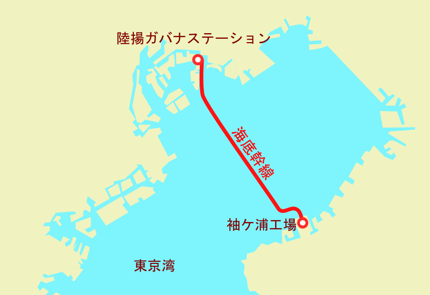 Abstract map of "Kaitei-kansen" natural gas pipeline which connects Sodegaura and Shinkiba under the Bay of Tokyo, constructed by Tokyo Gas Corporation from 1976 to 1977.